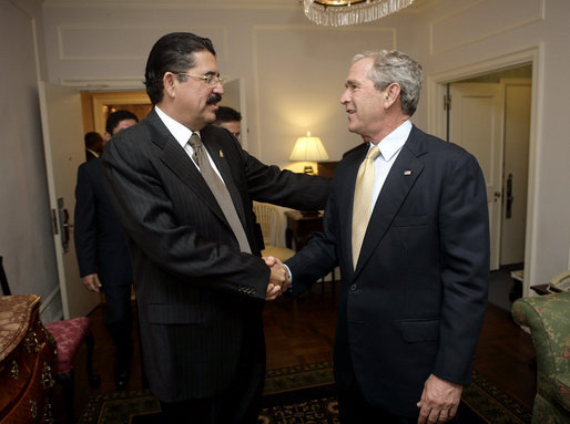 President George W. Bush and President Manuel Zelaya of Honduras greet each other before meeting, Monday, Sept. 18, 2006, at the Waldorf-Astoria Hotel in New York.